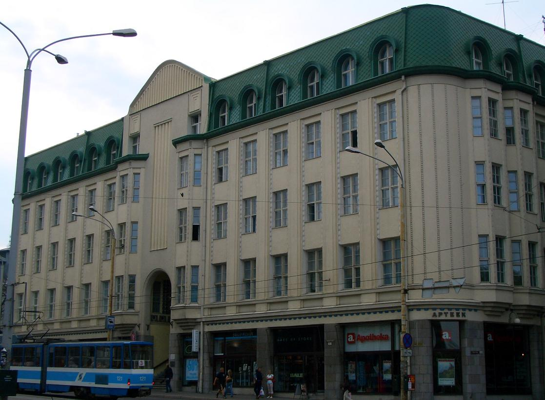 Tallinn: Credit Bank (Krediidipank) building, Pärnu maantee 10 (Eliel Saarinen, 1912). Now Ministry of Culture.